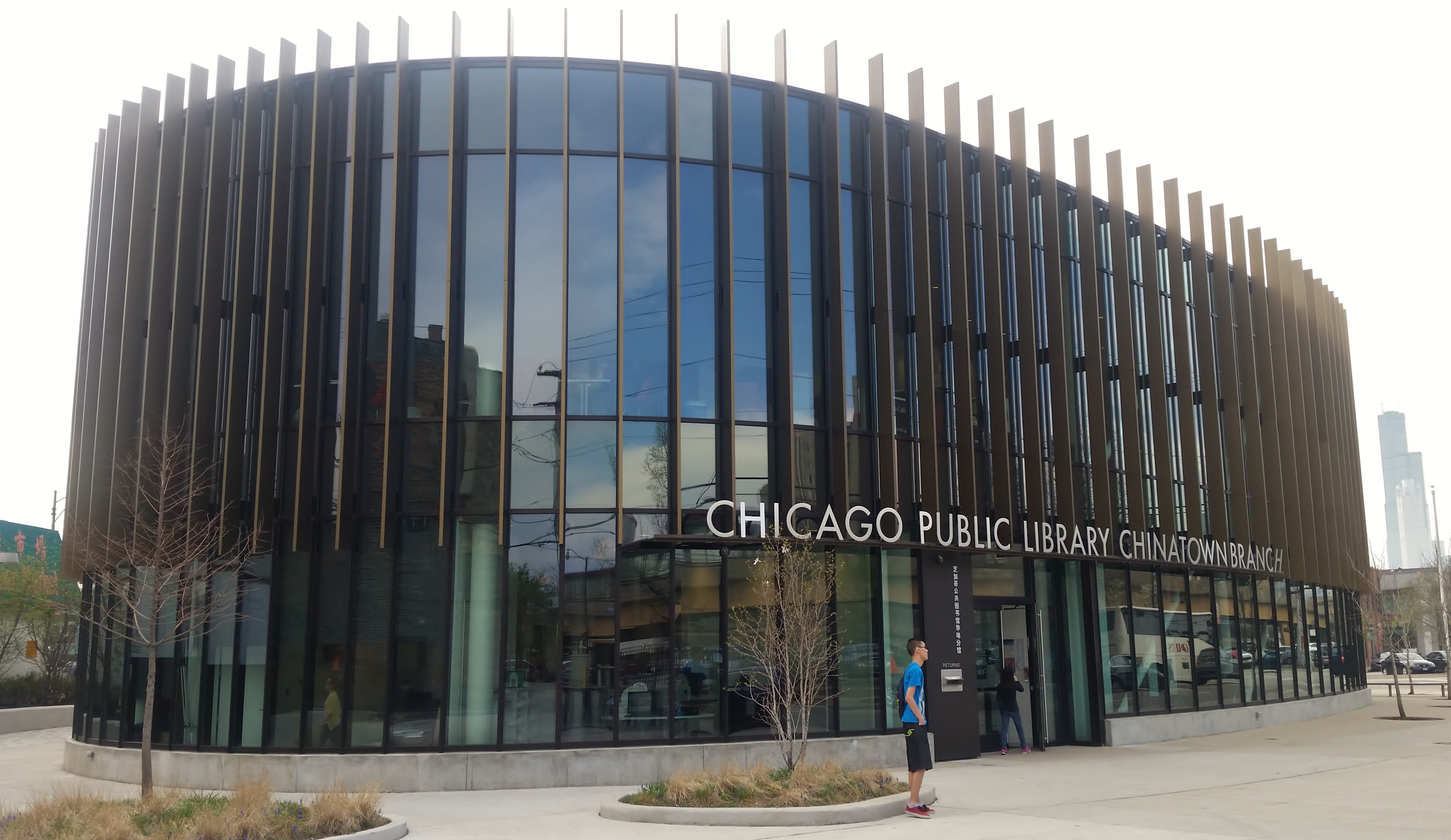 Chinatown branch of the Chicago Public Library, 2016